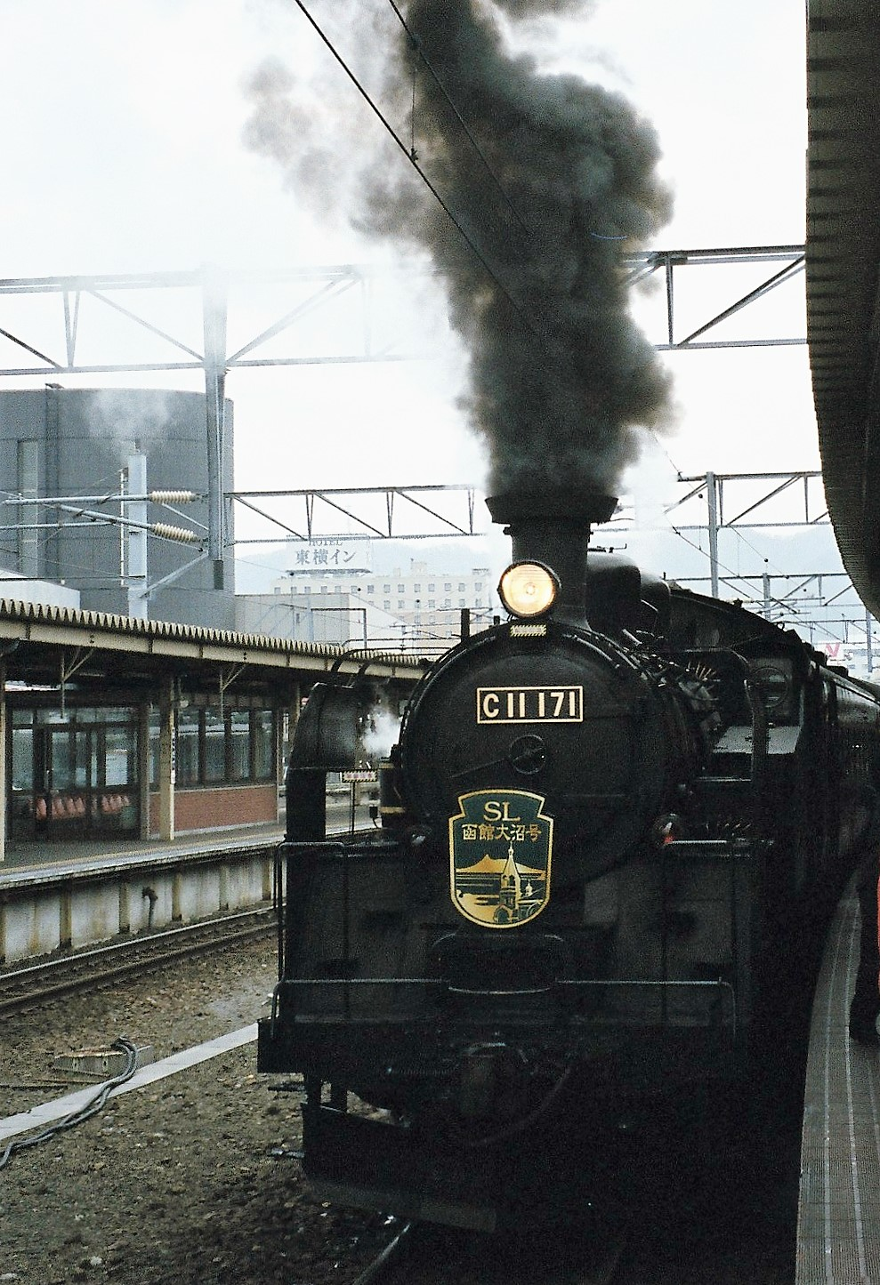 Hakodate Station